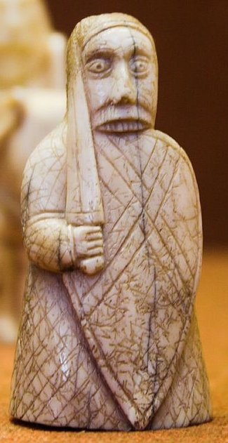 The Lewis Chessmen in the British Museum were probably made in Norway, about AD 1150-1200 Found on the Isle of Lewis, Outer Hebrides, Scotland The chess pieces consist of elaborately worked walrus ivory and whales' teeth in the forms of seated kings and queens, mitred bishops, knights on their mounts, standing warders and pawns in the shape of obelisks. Flickr data on 2011-07-22: Camera: Canon EOS Kiss Digital Tags: chess, chessmen, lewischessmen, britishmuseum, museum, artifact, antiquities, old License: CC BY 2.0 User: RobRoyAus Rob Roy